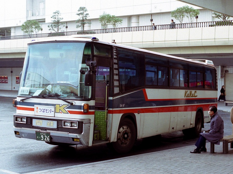 Kanto railway bus Express bus "TM-liner"(Mito-Tsukuba,Ibaraki,Japan) Isuzu LV(P-LV219S)